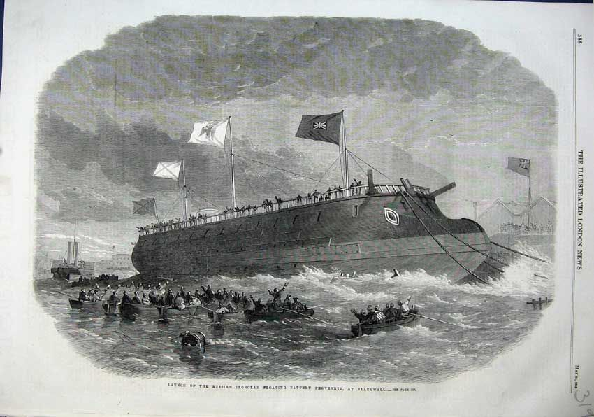 Launch of the first Russian ironclad, Pervenetz, in 1863. The ship served 1864 to 1905.